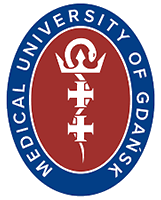 Logo of Medical University of Gdańsk.